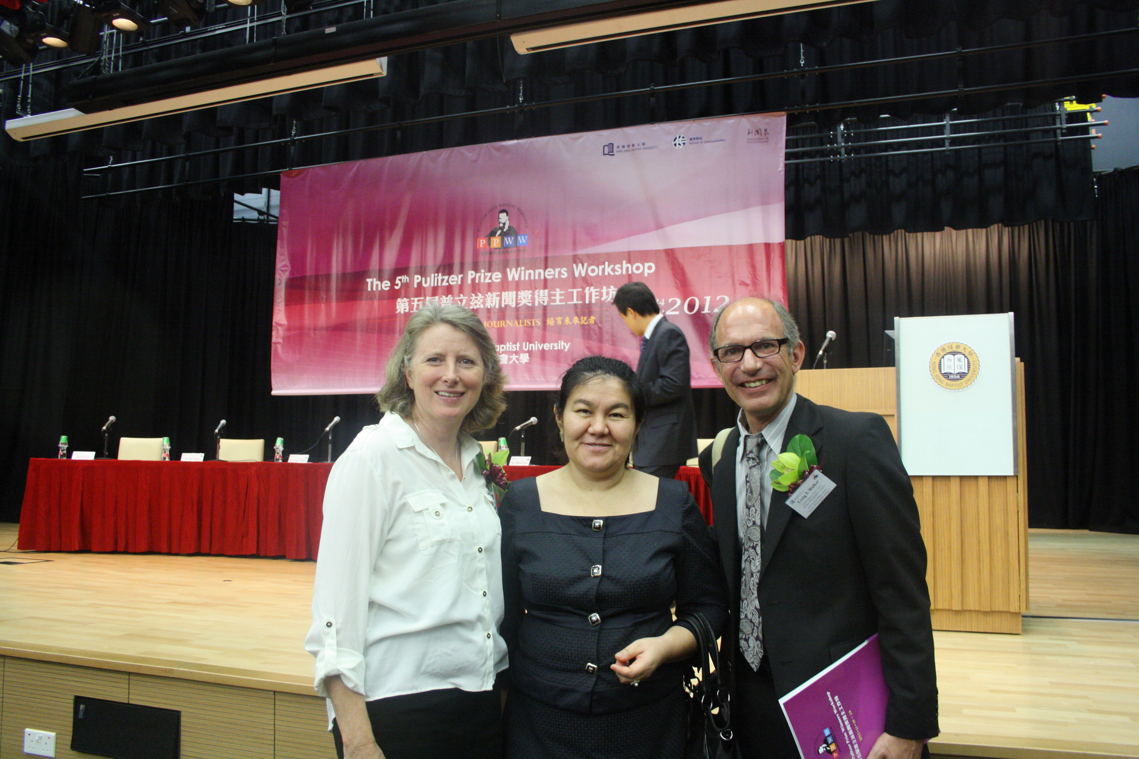 Pulitzer Prize winners Paige St. John (left) and Craig F. Walker (right) at the 2012 Hong Kong Baptist University 5th Annual Pulitzer Prize Winners Workshop. Center: Gülmīra Sultanbaeva